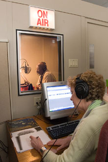 A photo of a narrator (in the on-air recording booth) and monitor producing a digital-audio book or "talking book" for the Perkins Braille and Talking Book Library.